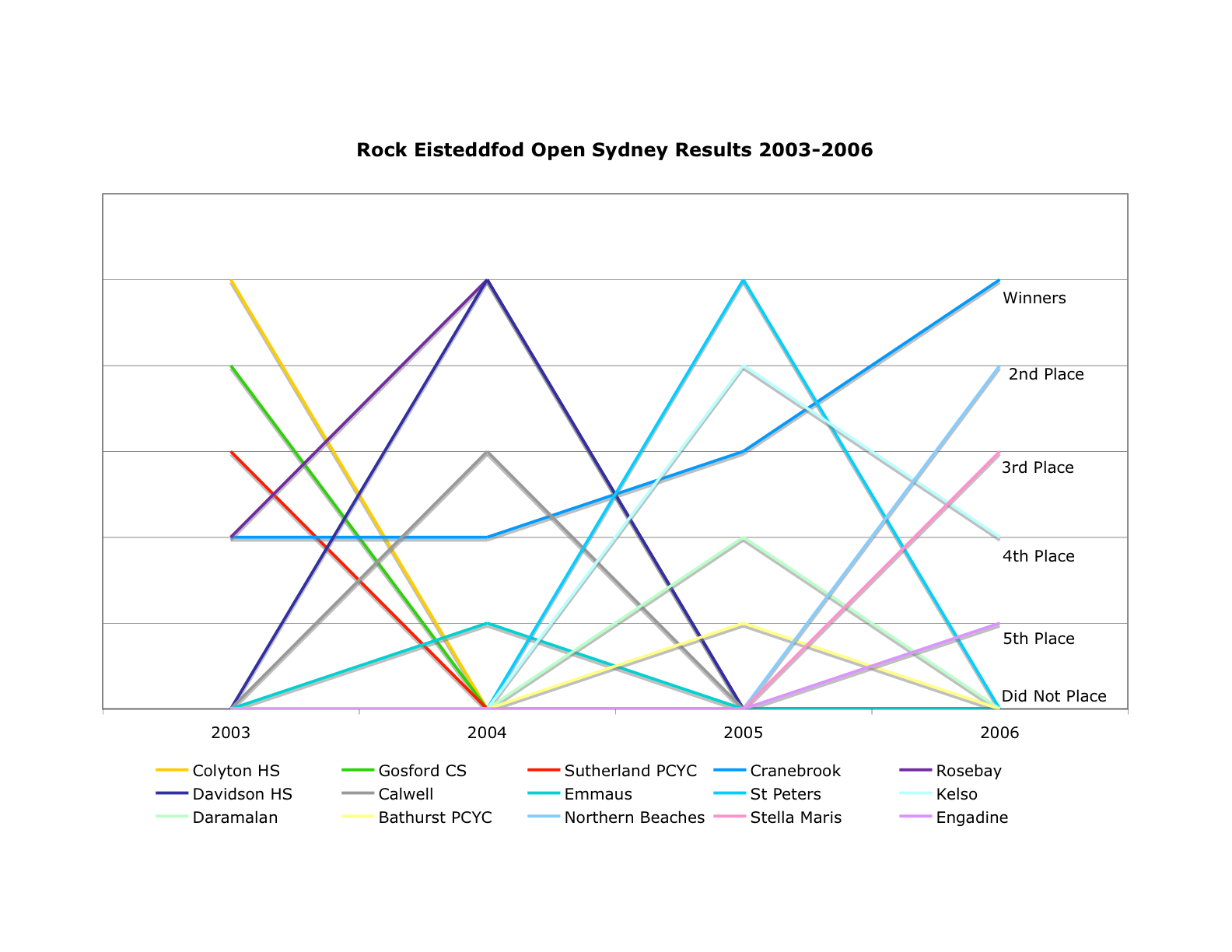 Rock Eisteddfod Open Division results 2003-2006.